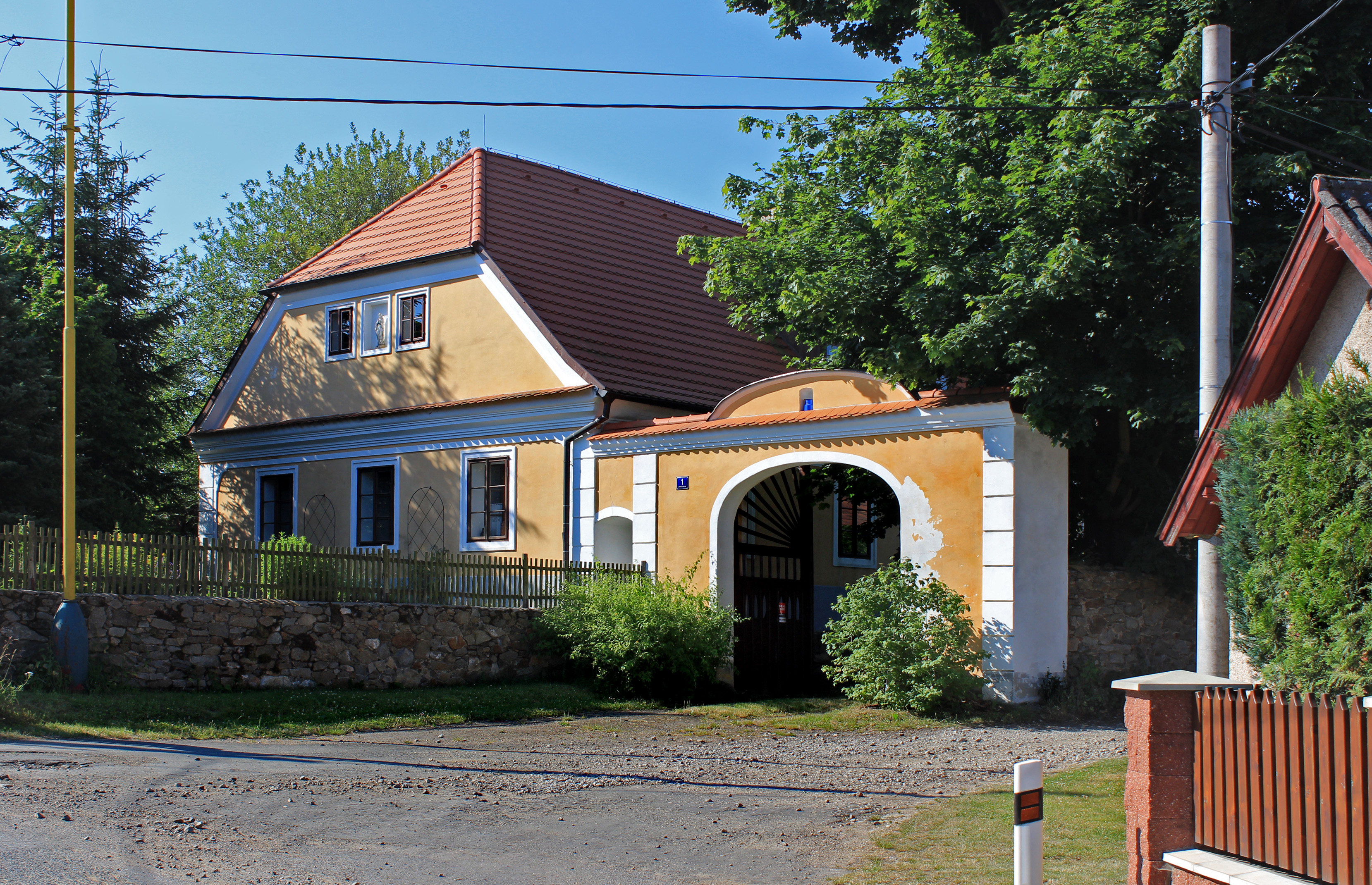 Old farm in Litichovice, Czech Republic.